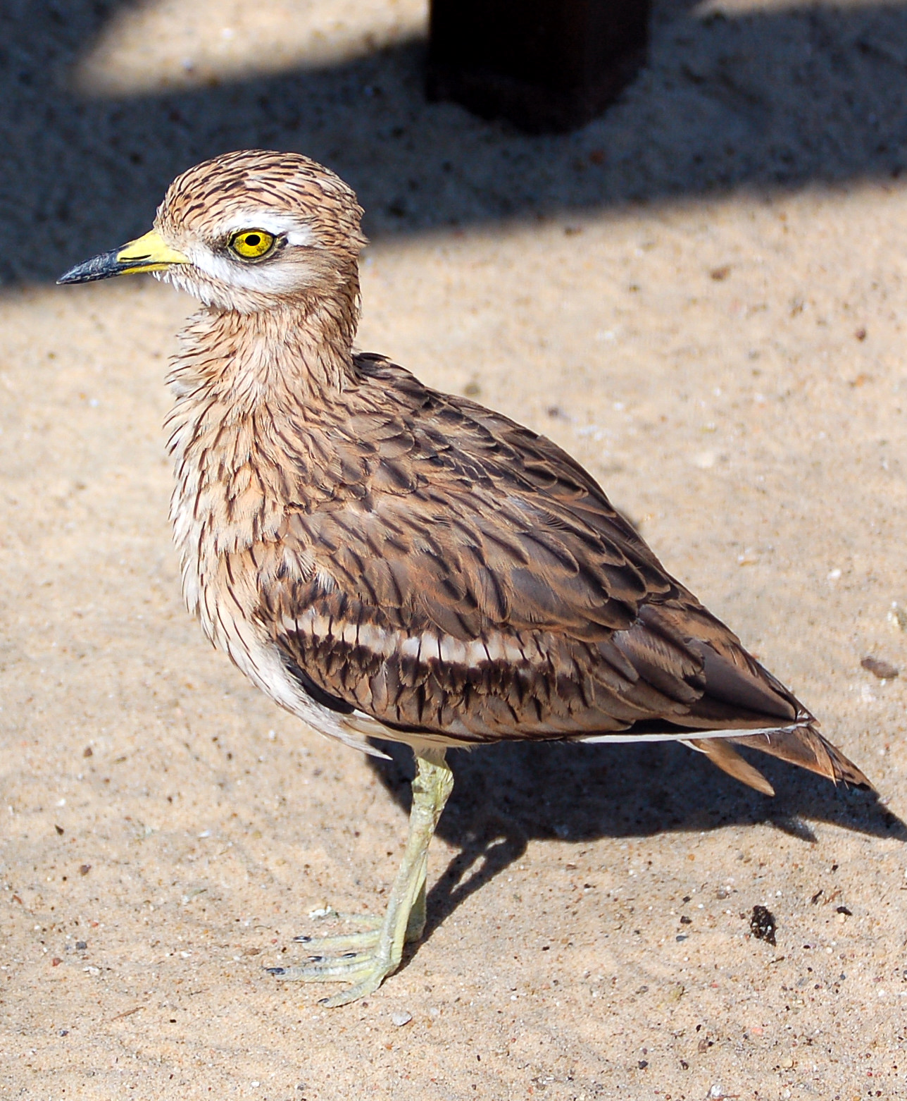 Burhinus sp. (B. oedicnemus or B. indicus) in Warsaw ZOO